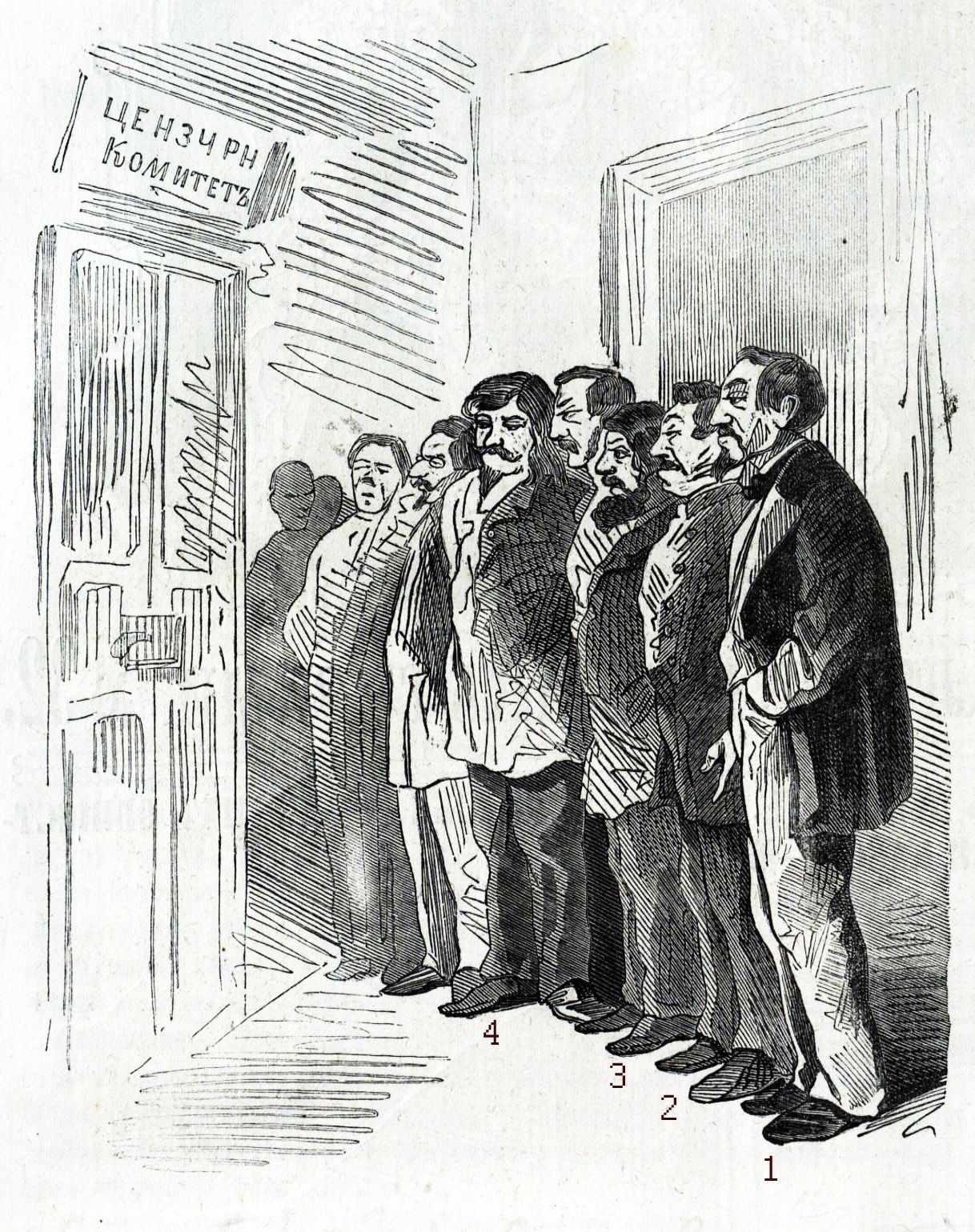 Censorship committee. Magazines editors. 1 — Nikolay Nekrasov; 2 — Vasily Kurochkin; 3 — Stepan Gromeka; 4 — Mihail Dostoyevsky. Caricature in "Iskra" satirical magazine. 1862, №32